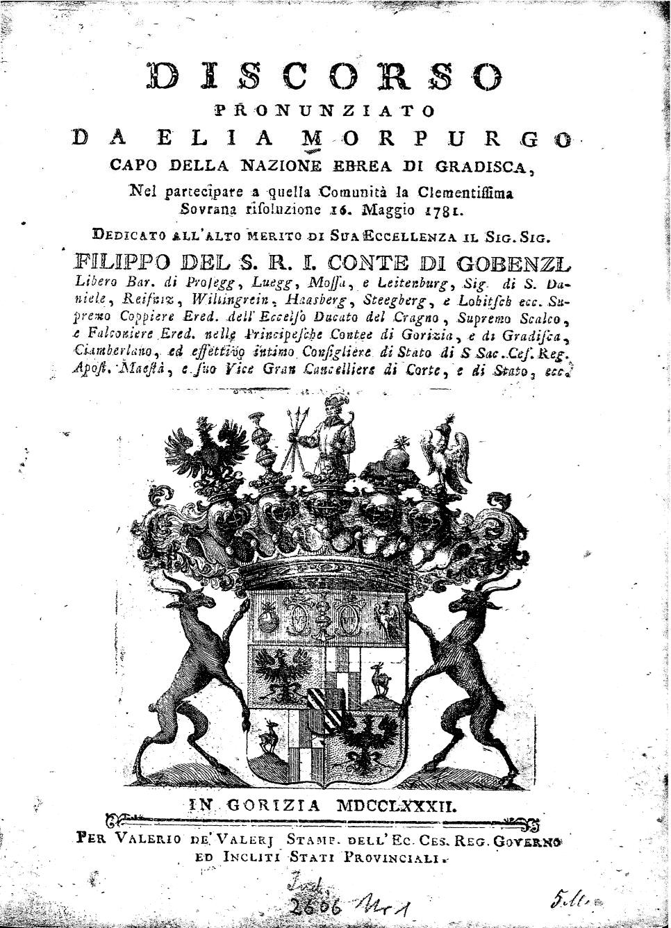 Title page of the "Discorso" from Elia Morpurgo (1740-1830), italian rabbi, one of the Haskala leaders; dedicated to Philipp von Cobenzl (1741–1810); published in Gorizia, 1782 ; source : (pdf to upload)